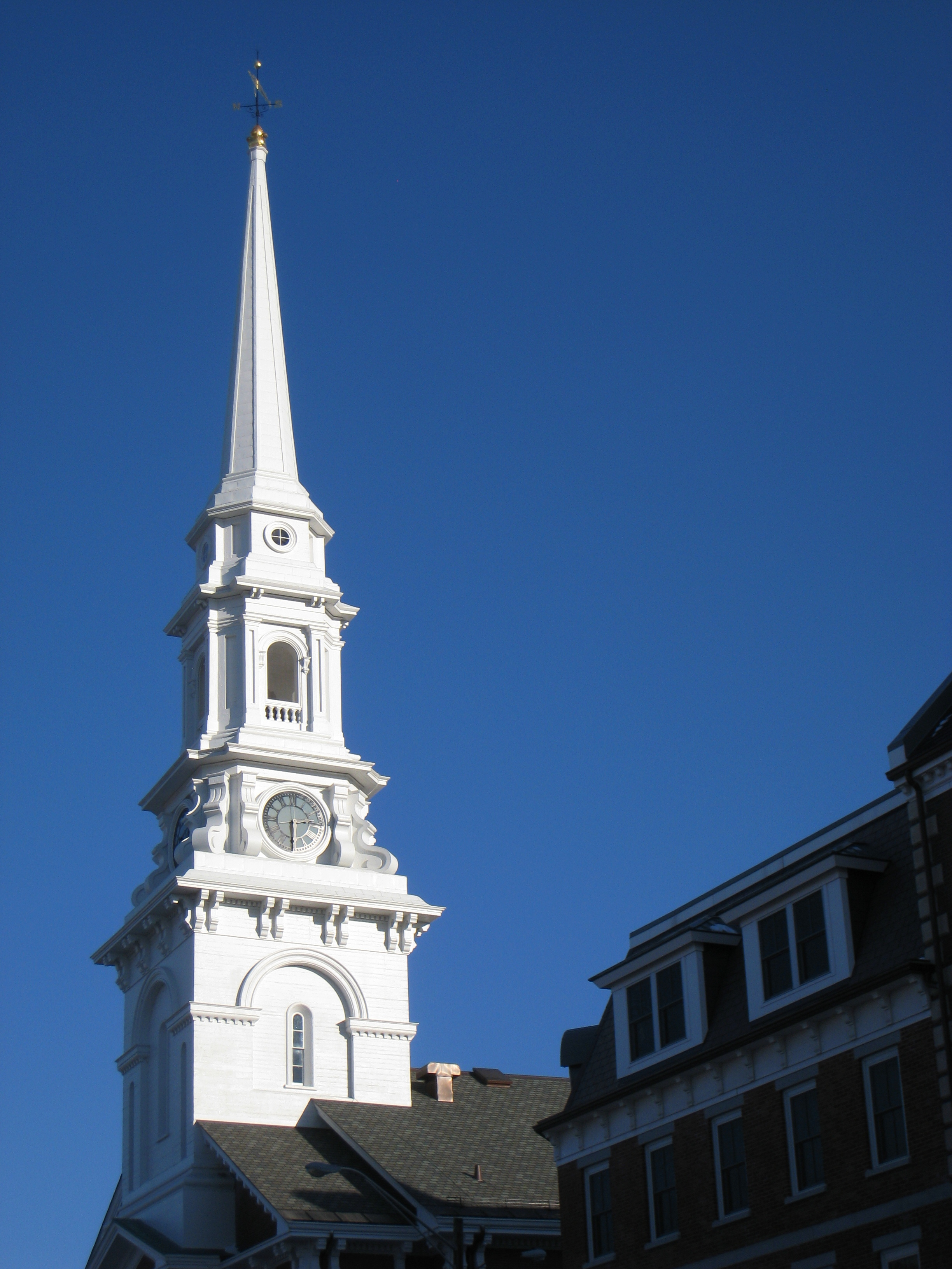 North Church steeple in Portsmouth, New Hampshire, USA. I took this photograph.